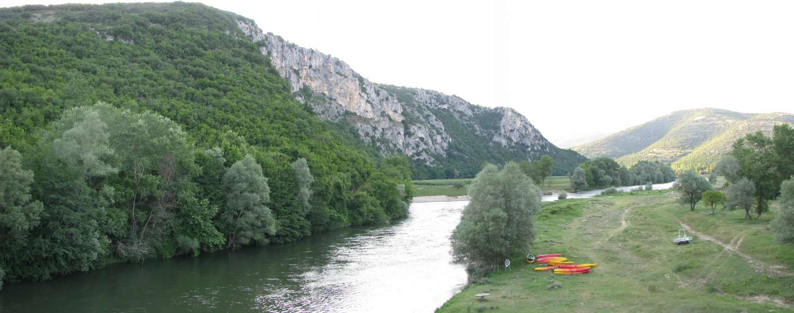 Nestos (Mesta in Bulgarian) river in northen Greece/southern Bulgaria